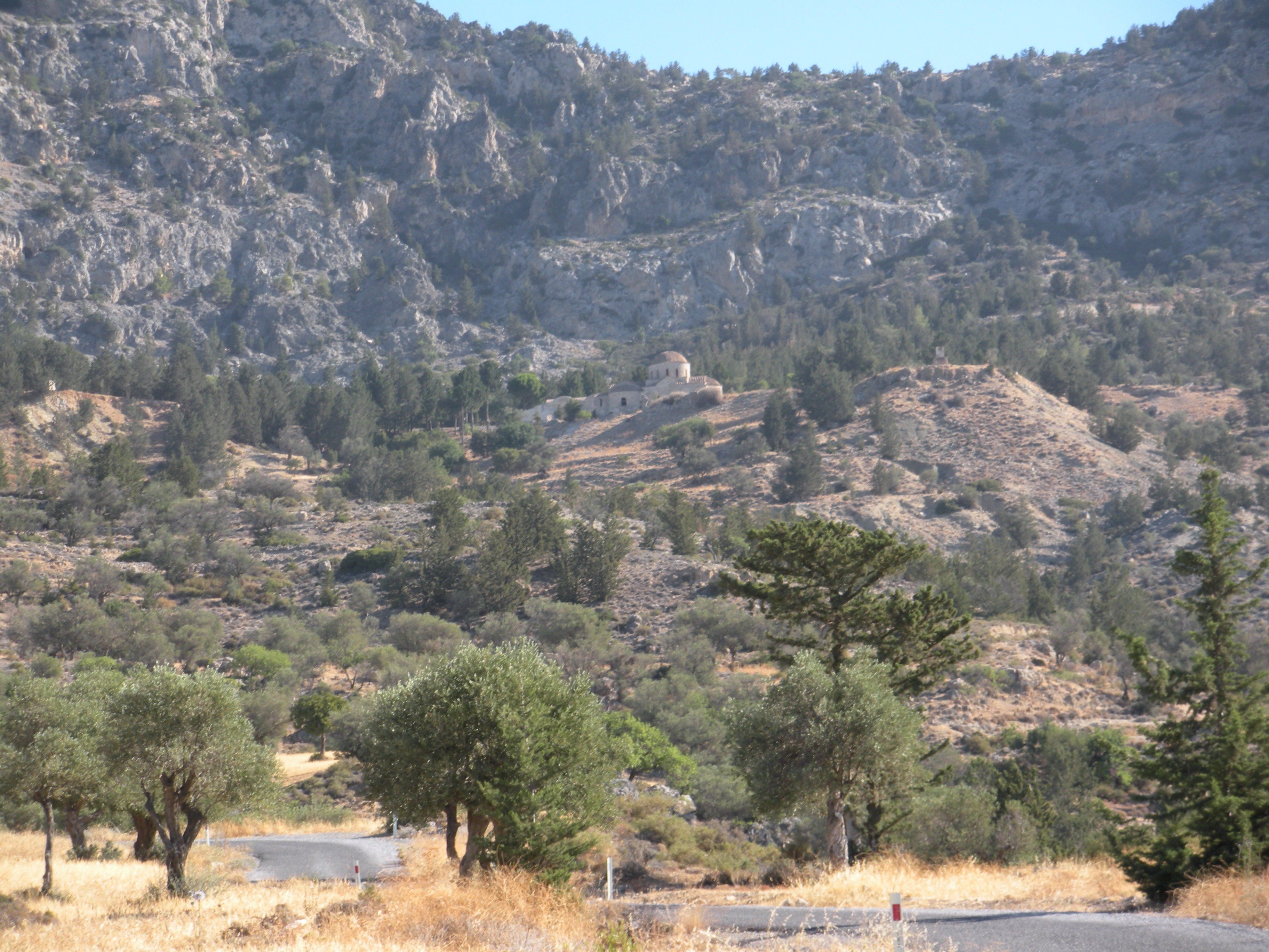 General view of the monastery of Panagia Apsinthiotissa, Cyprus, from the south in June, 2009